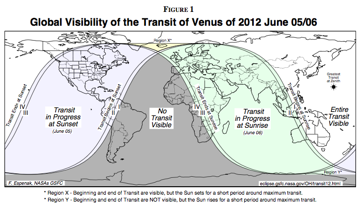 Map of the Earth showing where the 2012 transit of Venus was visible. Improved version from NASA of existing GIF. Transit of Venus, 2012